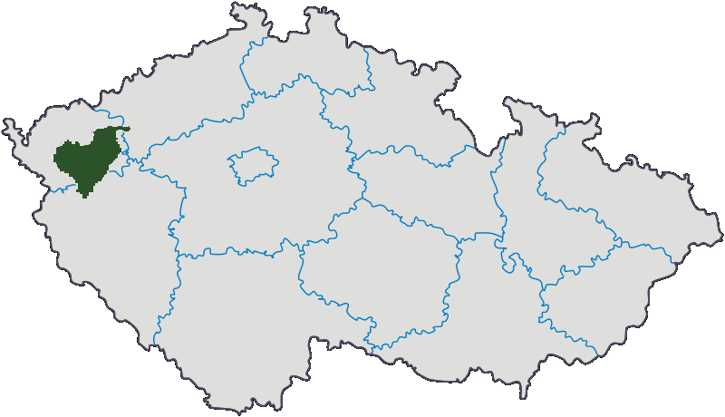 Locatormap of: Slavkovský les (Kaiserwald) in Czech Republic.